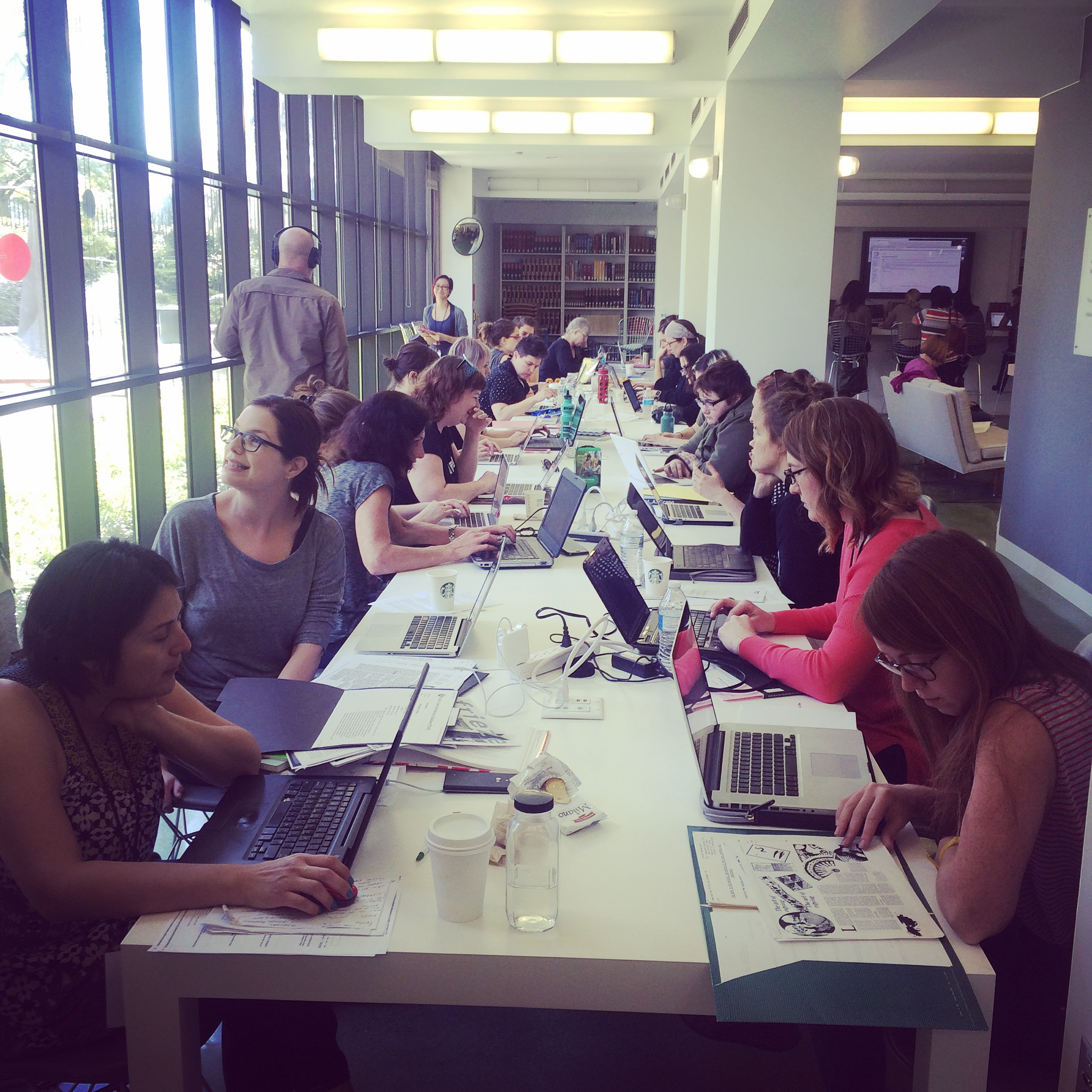 2015 Art + Feminism Wikipedia Edit-a-thon at LACMA, co-organized by East of Borneo and Women's Center for Creative Work, March 8, 2015